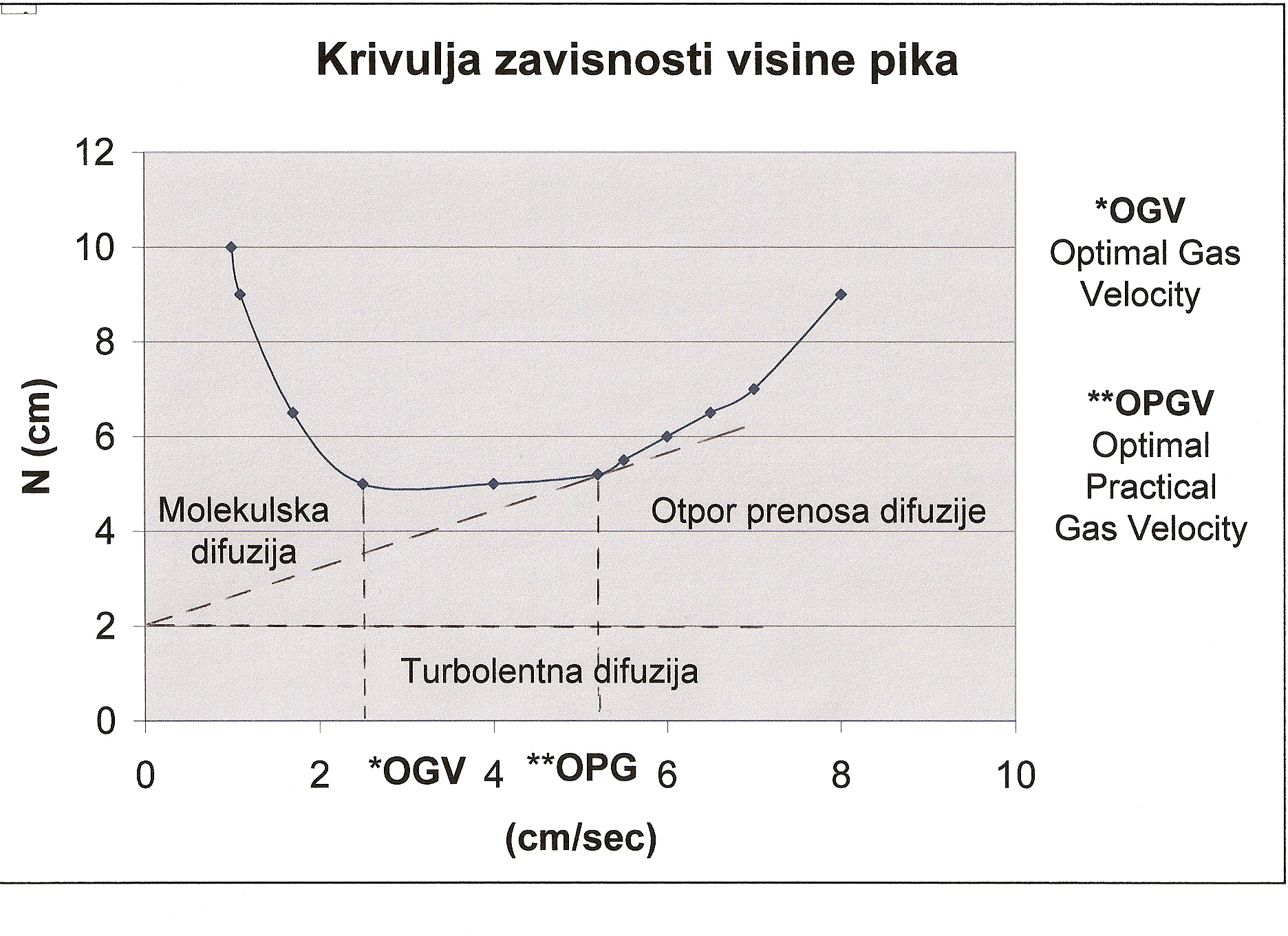 GC_Peaks_pitch_dependency_curve.png